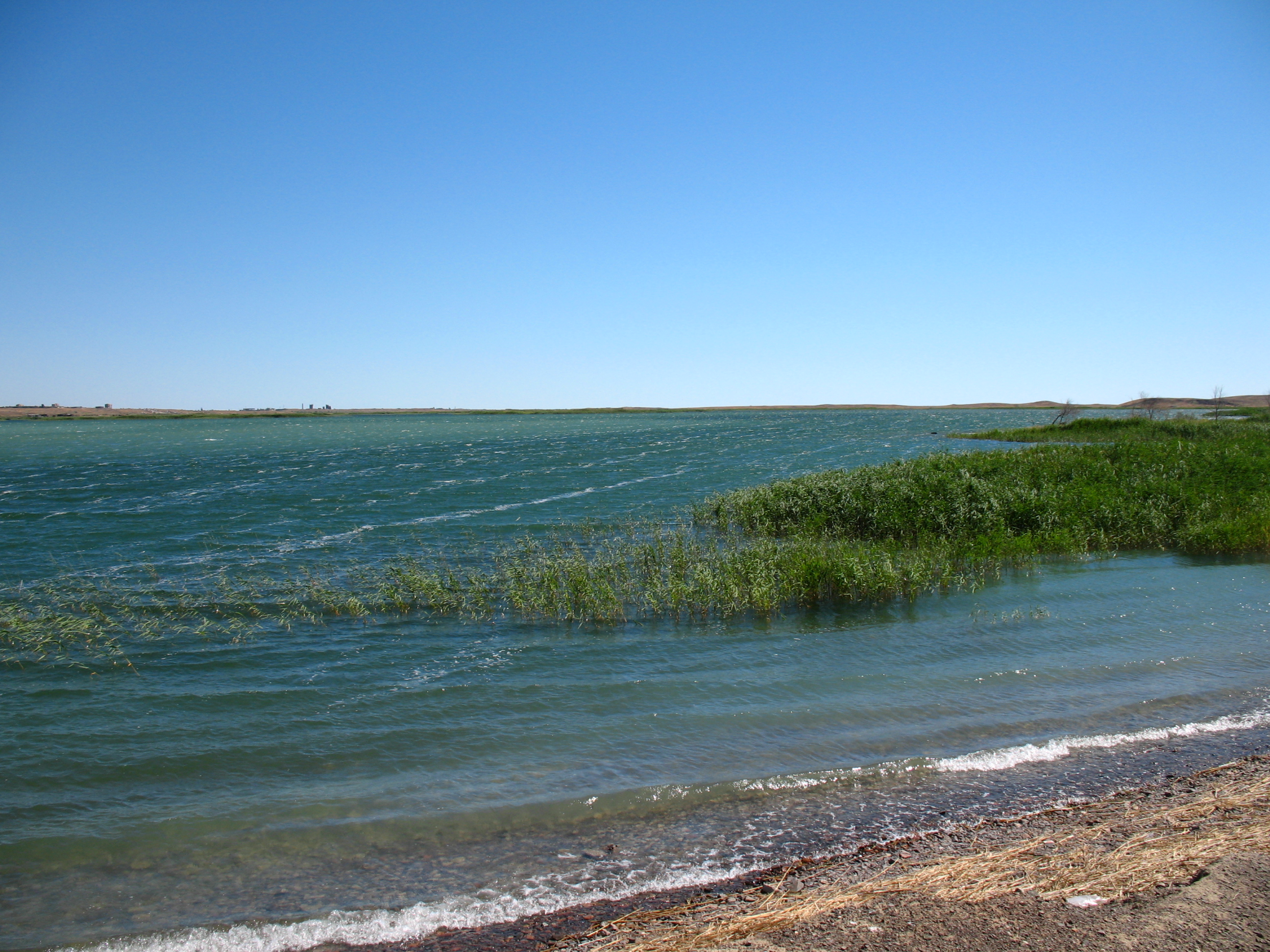 Lake Balkhash, near Priozersk city